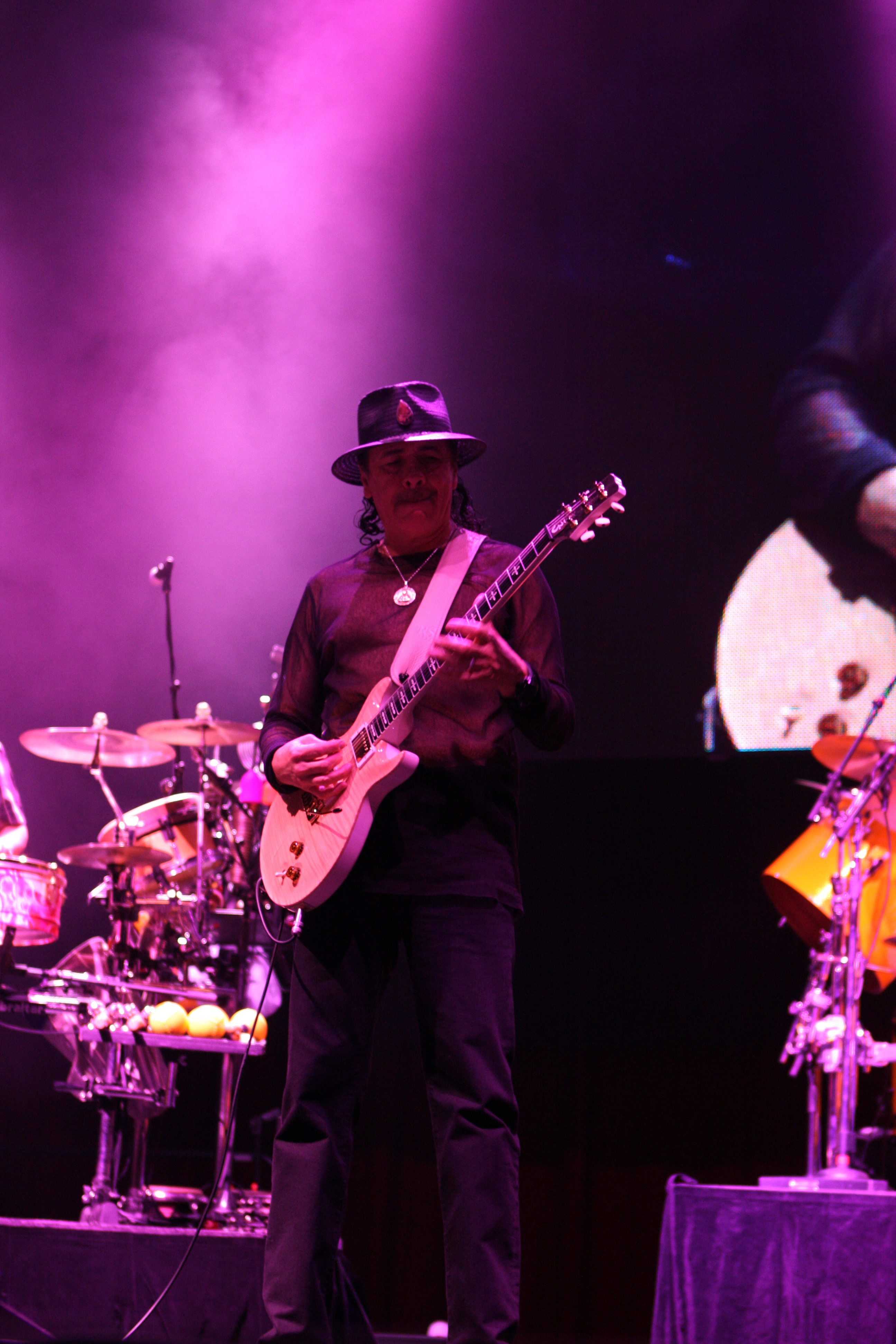 Santana Acer Arena Sydney